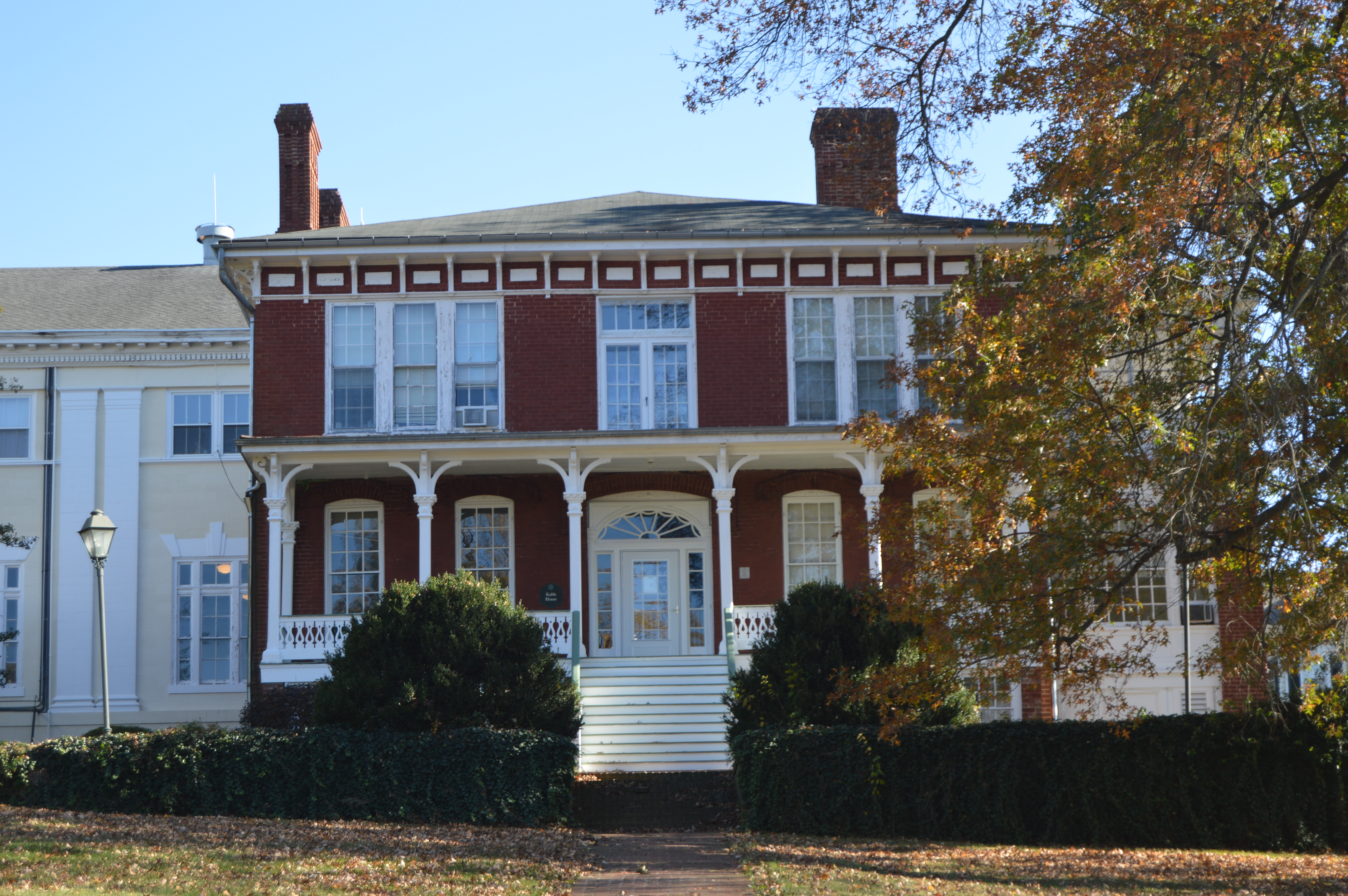 Front of the Kable House, located at 310 Prospect Street on the campus of Mary Baldwin University in Staunton, Virginia, United States. Built in 1873 for the now-defunct Staunton Military Academy, it is listed on the National Register of Historic Places.